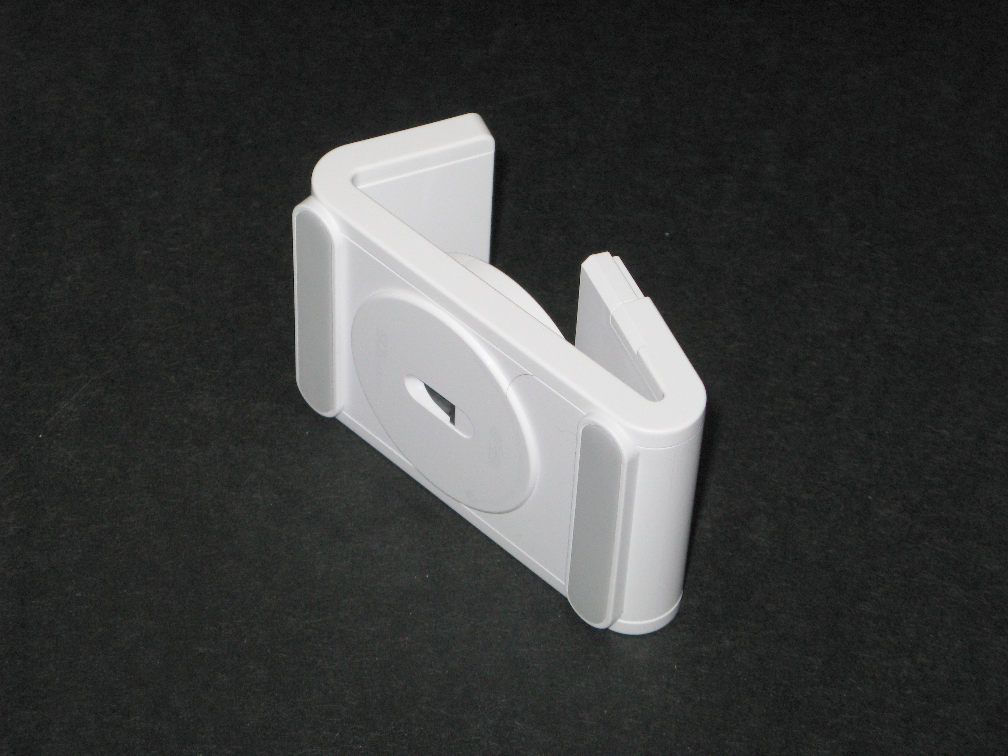 The Mag Kid Slide controller for the Nintendo DS. For use with Slide Adventure: Mag Kid. (Photograph taken by user:ApLundell) See Also : thumb|125px|left|The Mag Kid Slide controller installed in an (upside down) Nintendo DS.